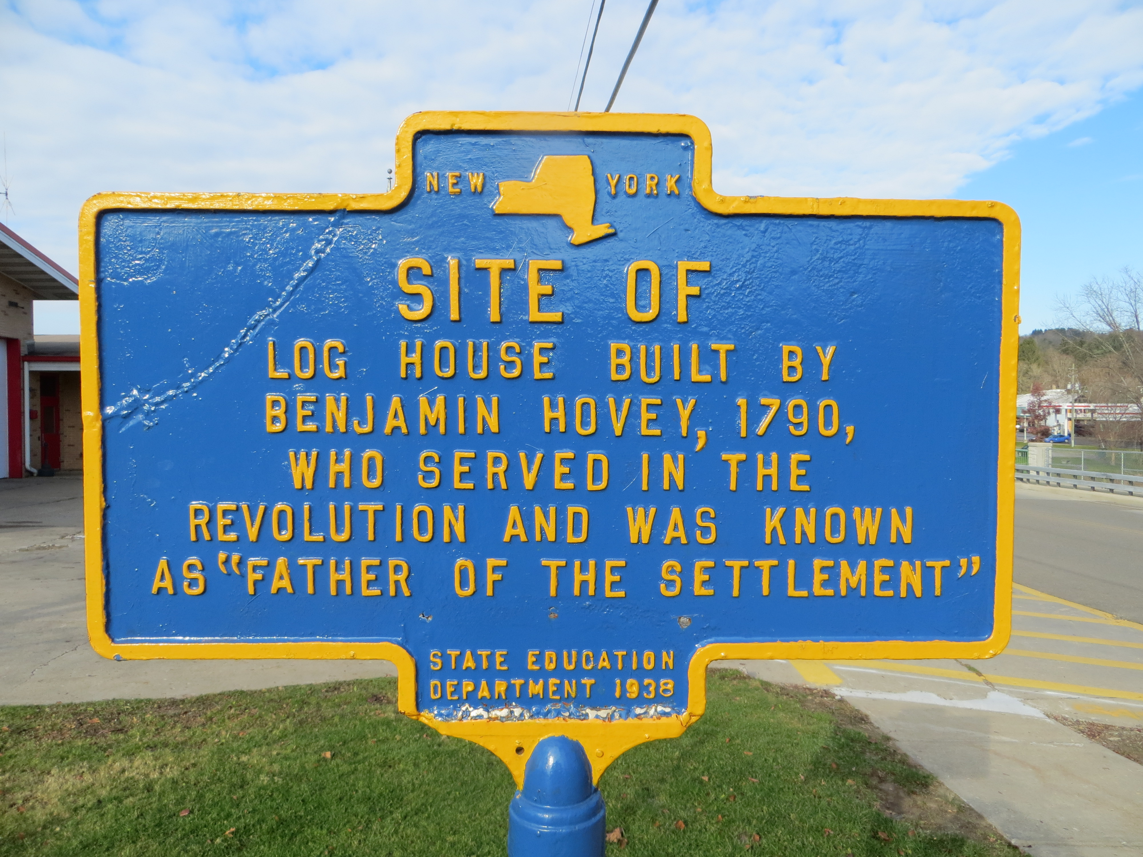 Historic marker of the site of the log house built by Benjamin Hovey in 1790. He served in the American Revolution and was known as the "father of the settlement".